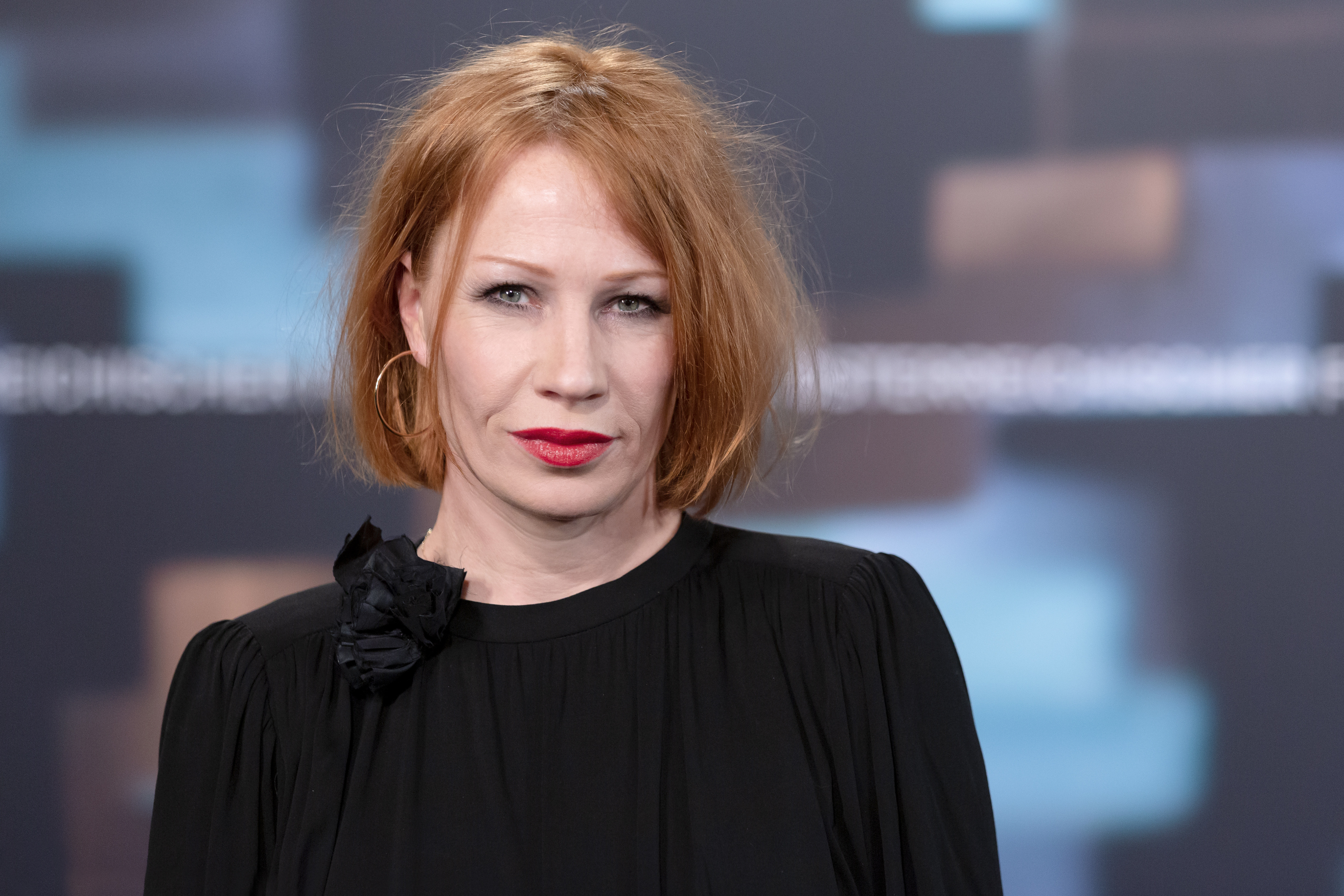 Birgit Minichmayr, photo call at the Austrian Film Awards 2019 (Rathaus, Vienna,Austria).